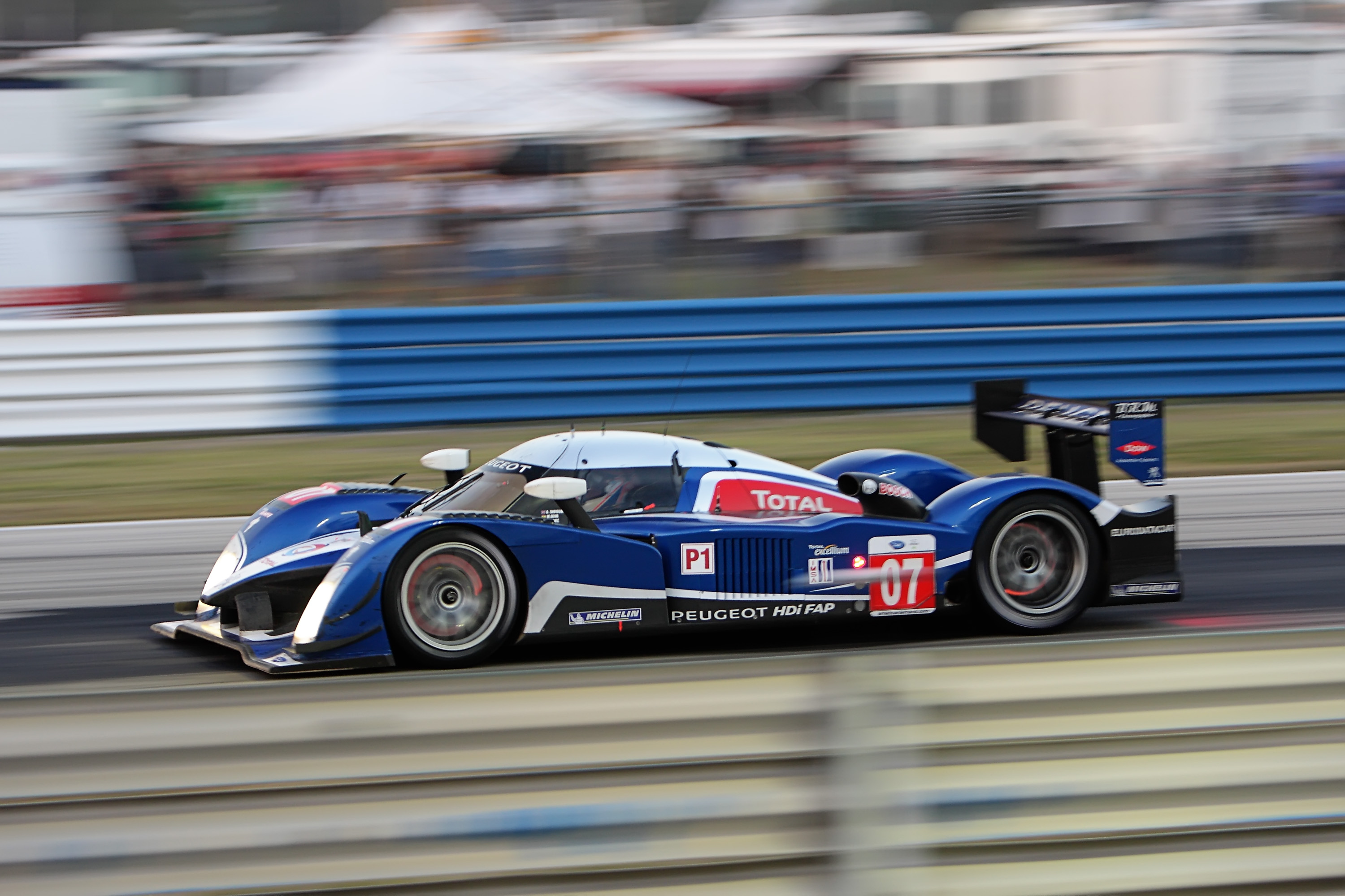 Peugeot 908 HDI FAP #07 ~ 2010 12 Hours of Sebring winner 367 laps. Drivers; Alexander Wurz; Marc Gene, Spain; Anthony Davidson Picture taken just before turn 7.